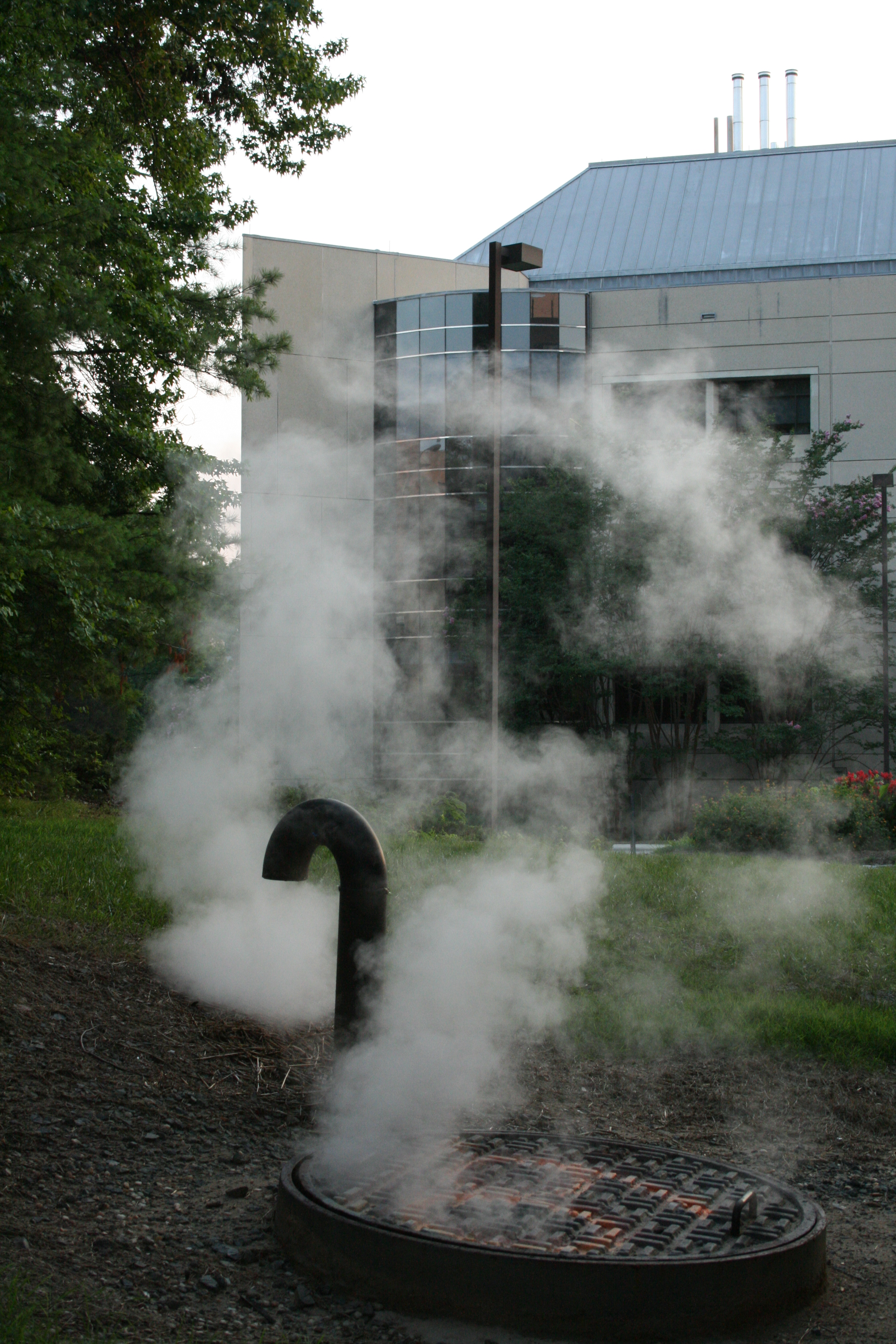 Steam rising from a manhole and some other outlet at Duke University in Durham, North Carolina.